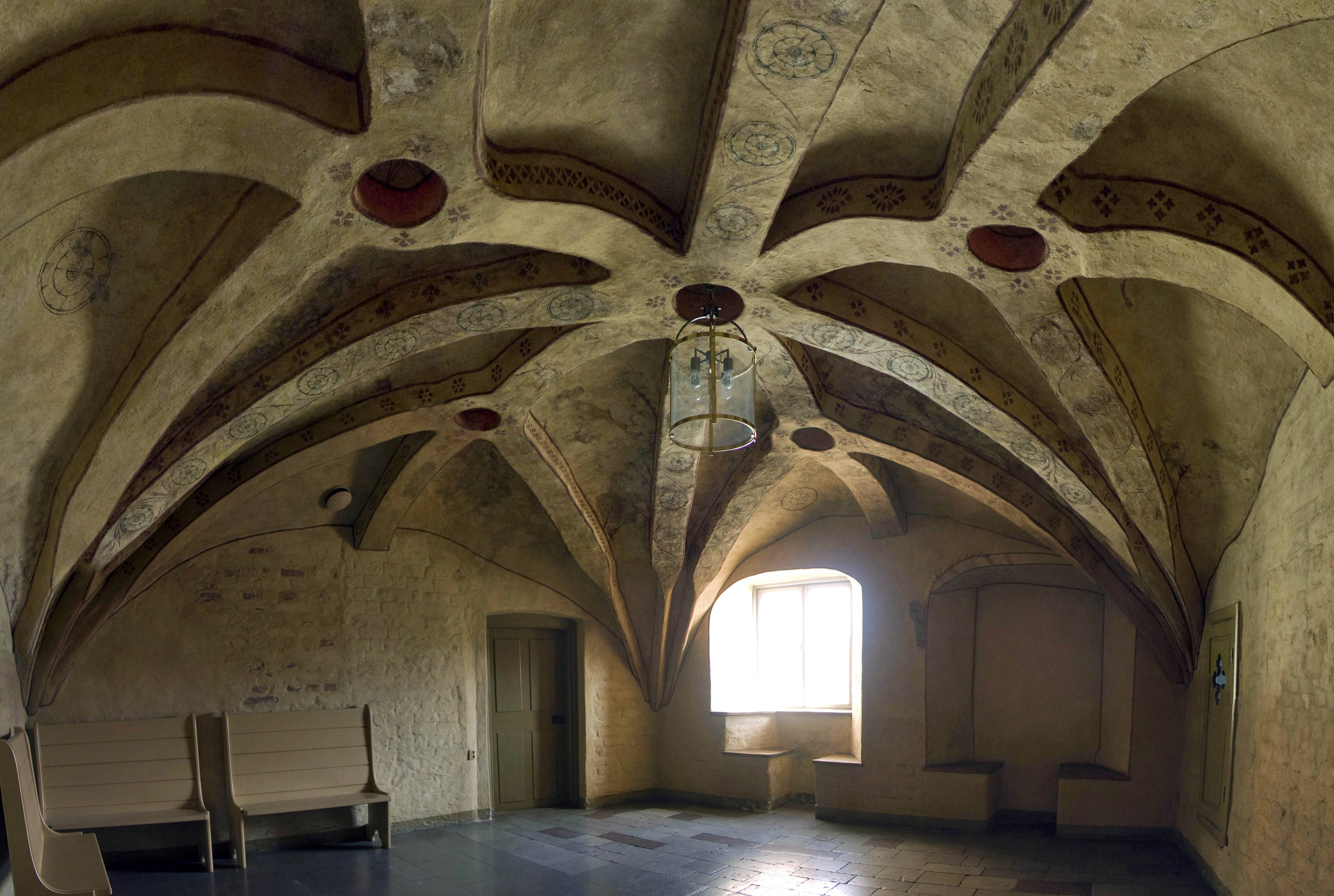 Stockholm, Riddarholmen: room from the former greyfriars monastery.